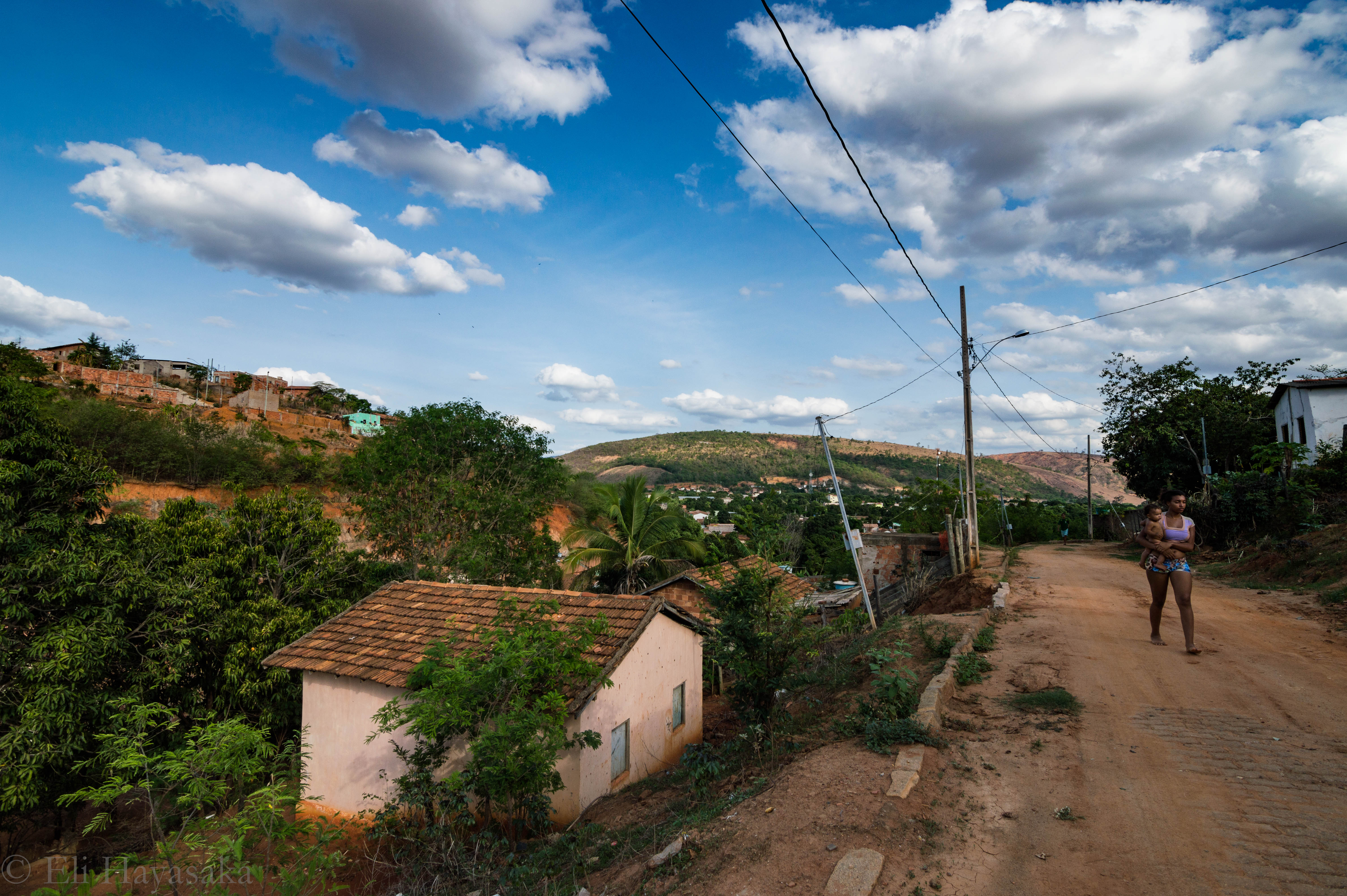 Habitations in Galileia, Minas Gerais, Brazil.